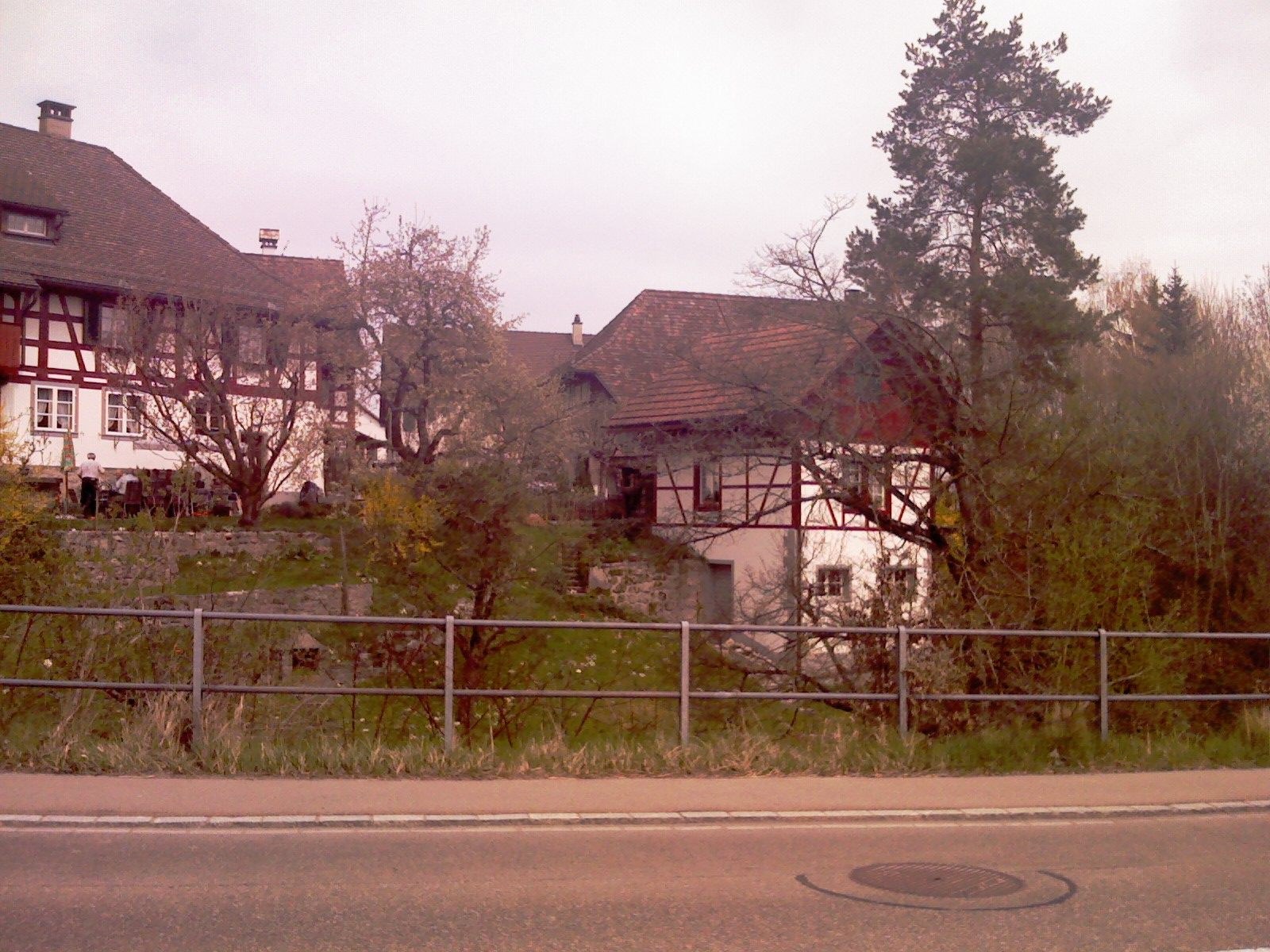 Timber framing houses at Berg am Irchel, Canton Zürich, SwitzerlandEsperanto: Faktrabdomoj en Berg ĉe Irchel, Kantono Zuriko, Svislando